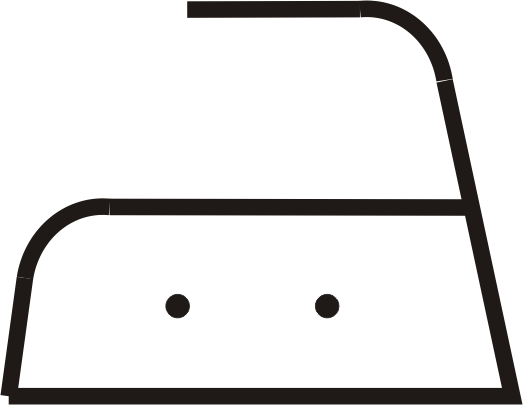 Pictogram, ironing